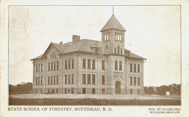 Postcard of State School of Forestry, Bottineau, North Dakota. Image in public domain. Postmark on reverse side is September 11, 1911